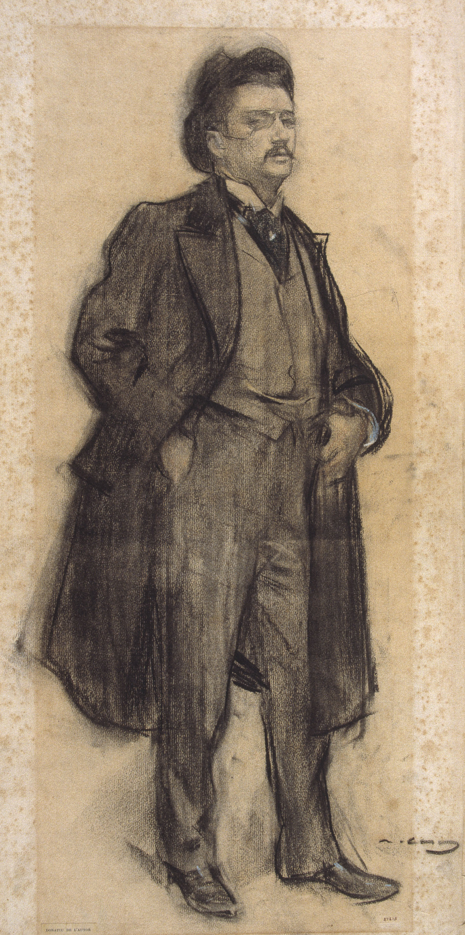 Portrait by Ramon Casas conserved at MNAC in Barcelona. Imagen 096